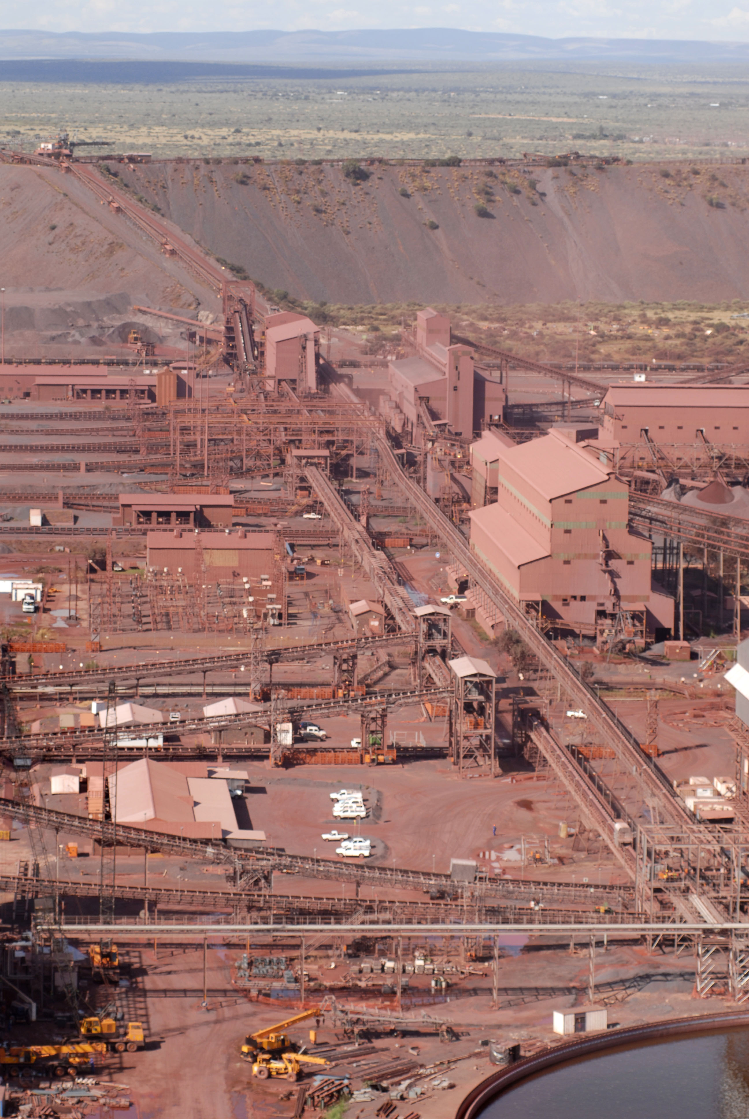 Sishen Mine, a Kumba Iron Ore mine. Conveyor system with tailings dump behind.